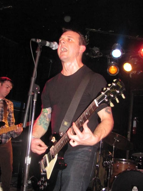 Dan Schafer (aka Dan Vapid) performing with Noise By Numbers at the Beat Kitchen in Chicago, IL